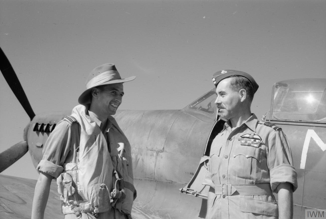 Royal Air Force Operations in the Far East, 1941-1945. The Allied Air Commander in Chief, Air Command South East Asia, Air Marshal Sir Guy Garrod, chats with Squadron Leader Robert Hayes, Commanding Officer of No. 273 Squadron RAF by a Supermarine Spitfire Mark VIII at Cox's Bazaar, India.